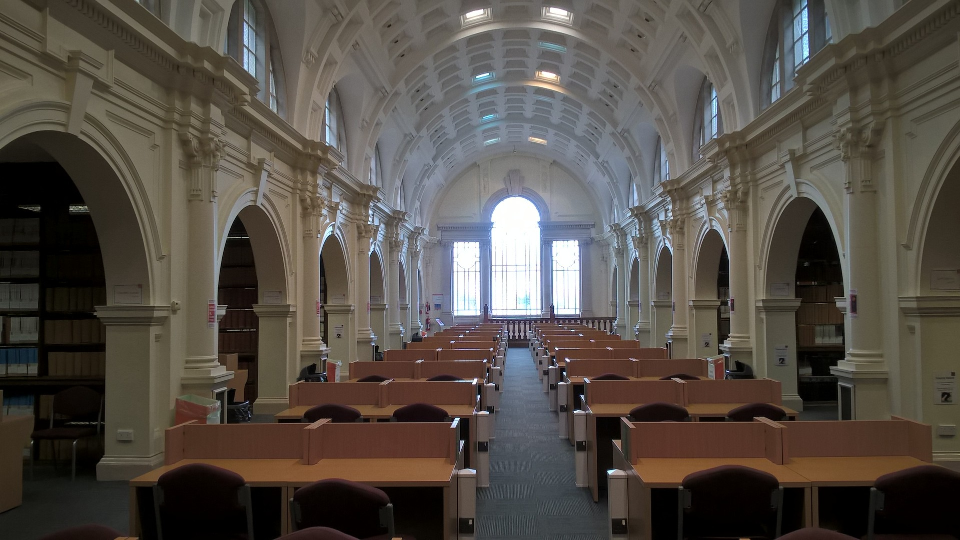 Main hall of the Cardiff University Science Library, as seen in 2017 looking towards the eastern end of the hall.